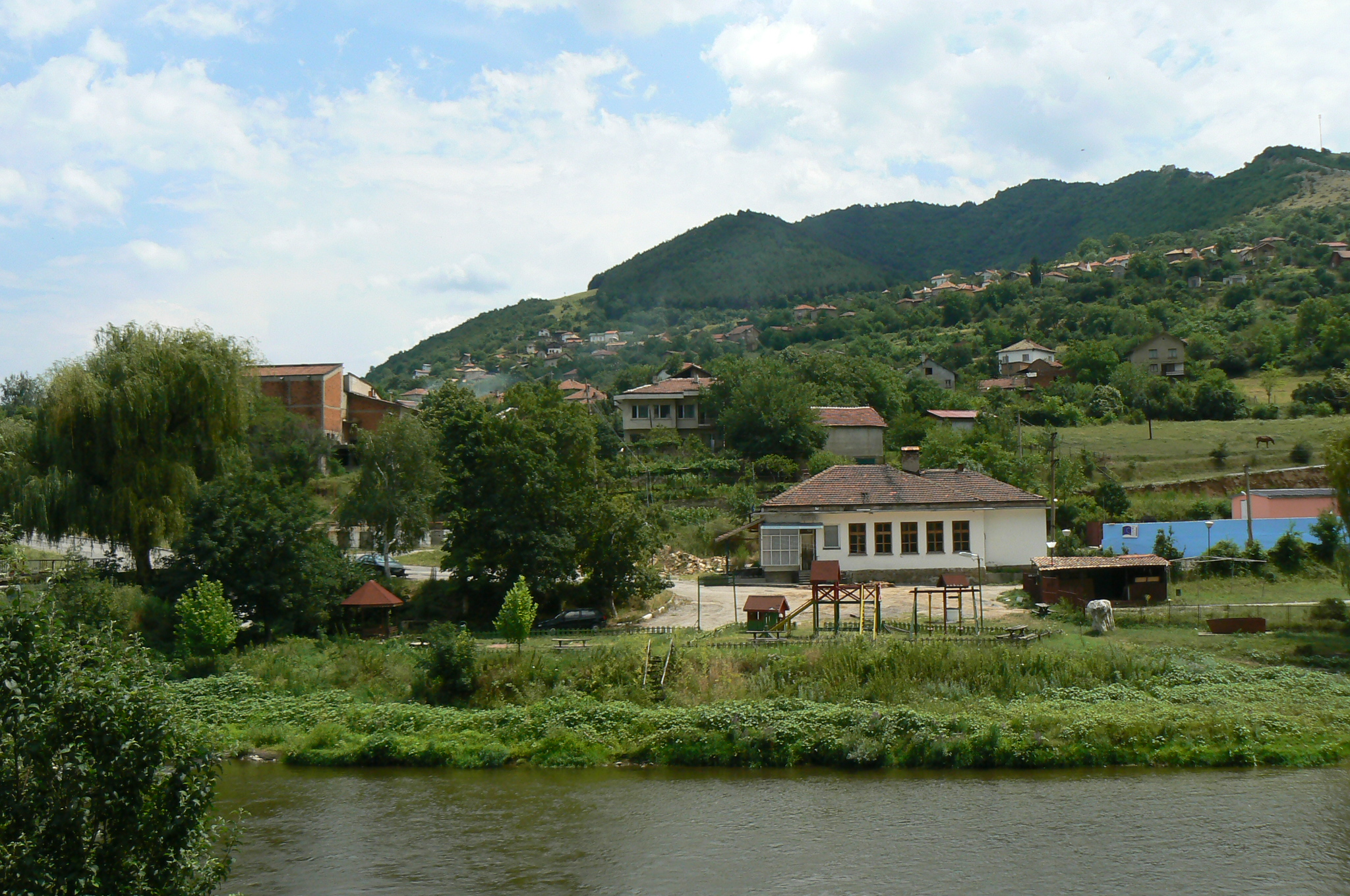 View to village Lyutibrod, Bulgaria and river Iskar